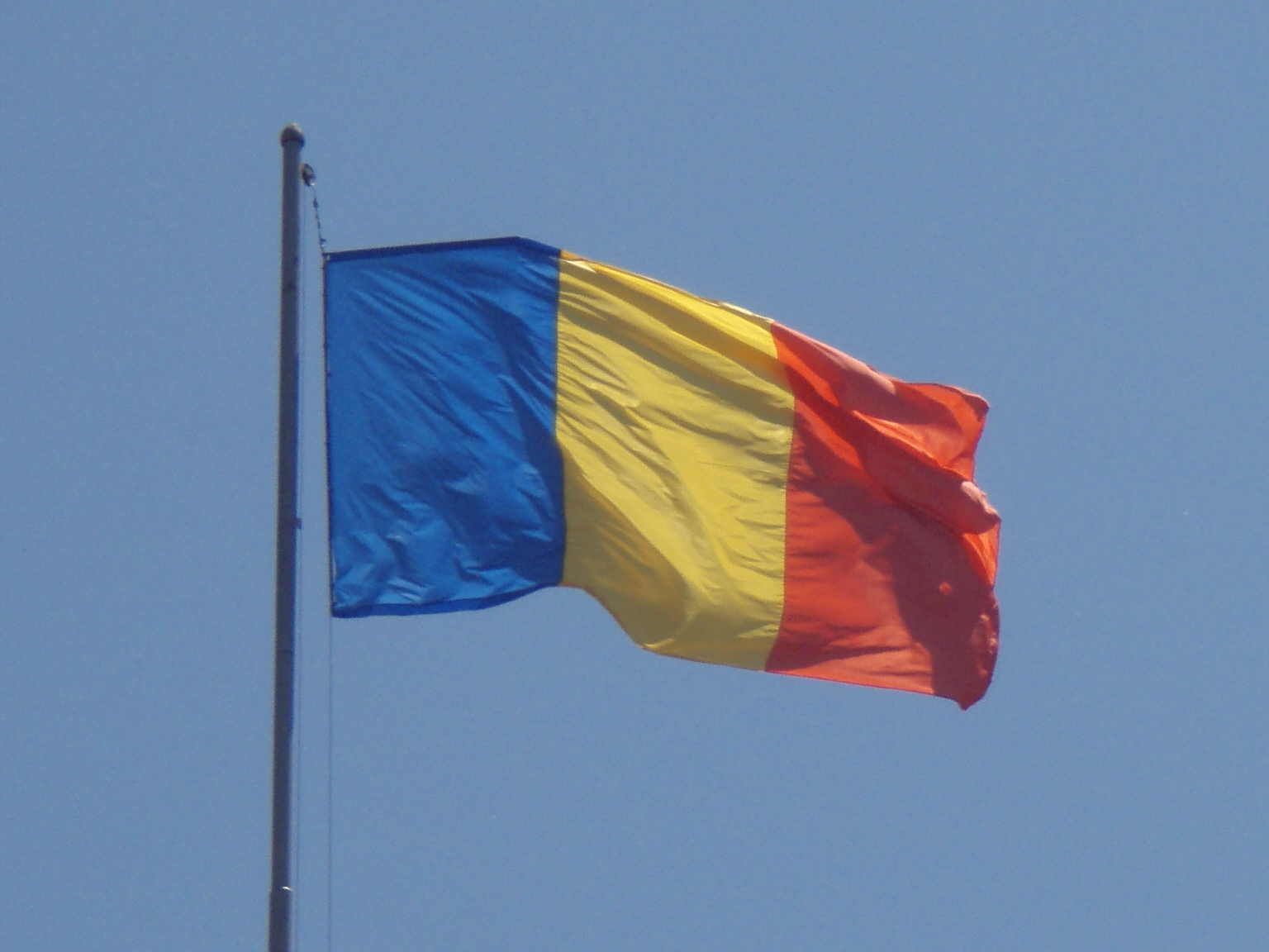 Flag of Romania